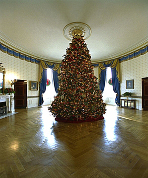 The Blue Room has long been the location of the official White House Christmas Tree. Ed and Cindy Hedlund and their son Thomas, of Hedlund Christmas Farm in Elma, Washington presented this year's 18-foot noble fir to President George W. Bush and wife Laura Bush.